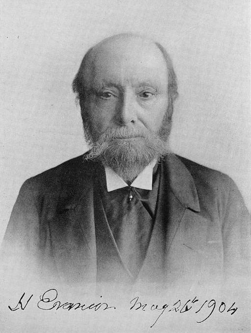 A photograph of Henry Evans (Evanion) from Harry Houdini's book "The Unmasking of Robert-Houdin", p. 22